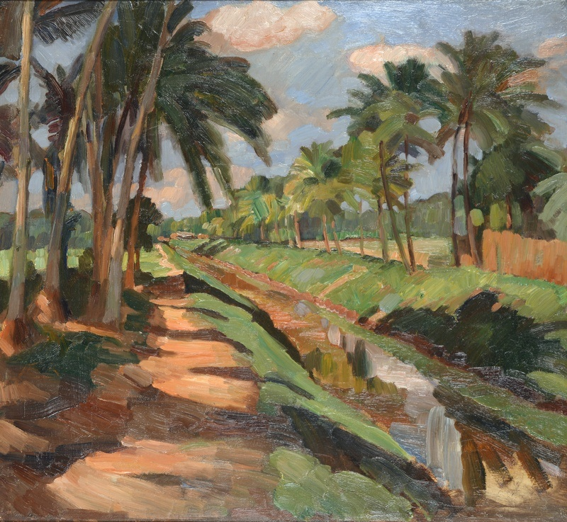 Indonesisch landschap